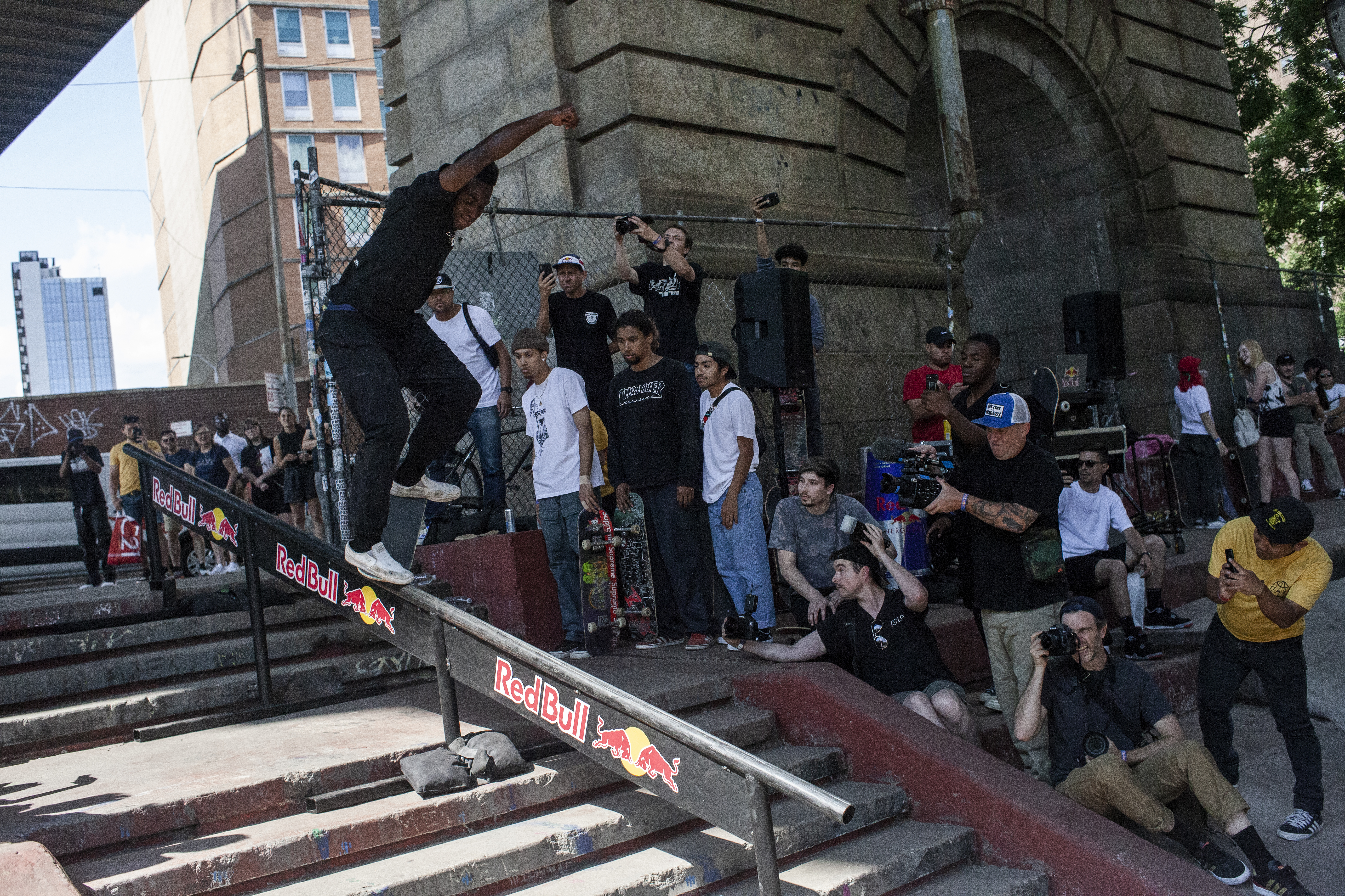 Kevin Godette nails a backside crooked grind down the LES skatepark double set during a Red Bull Skate event